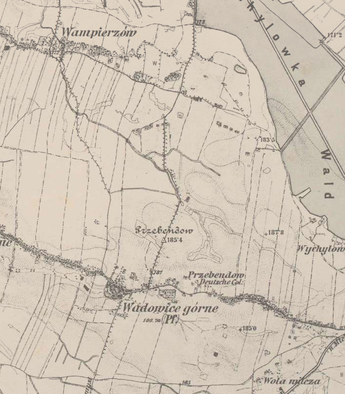 Przebendów on an austrian map from around 1870